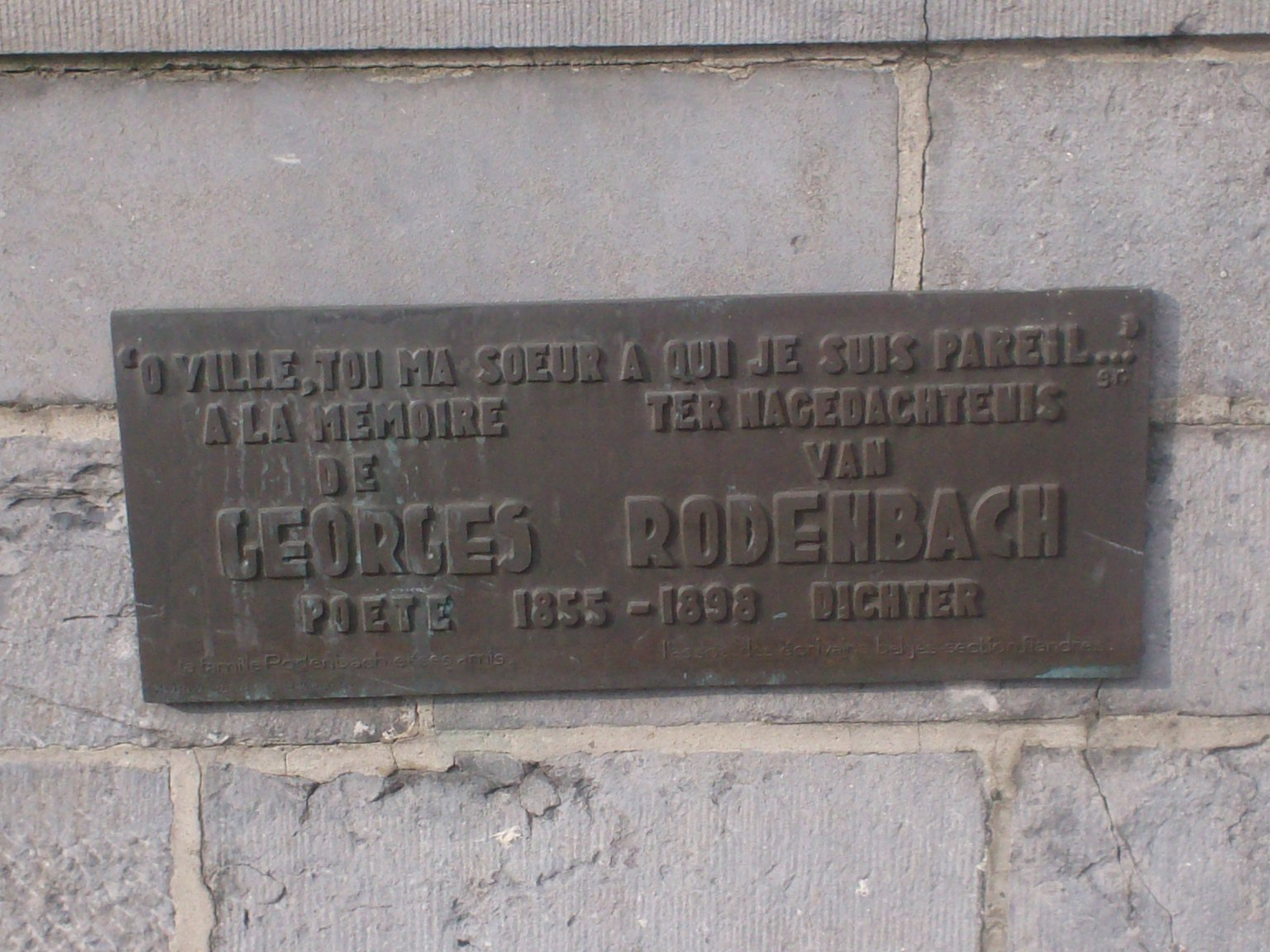 Memorial plaque to Georges Rodenbach, Jan Van Eyck square in Bruges (Belgium)